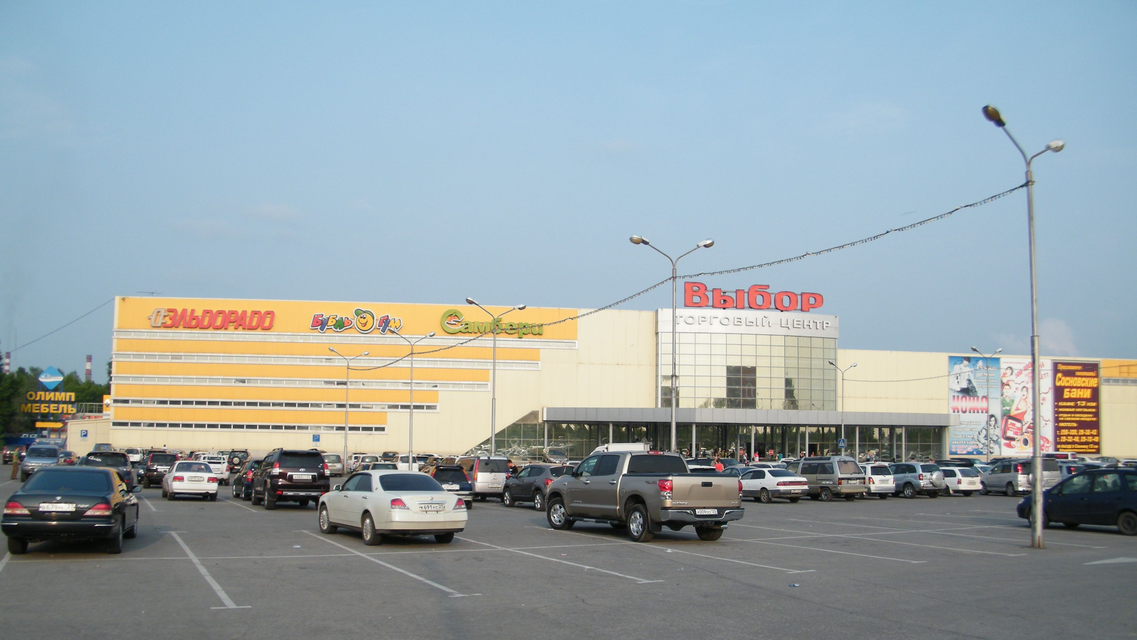 Магазин Эльдорадо в Хабаровске